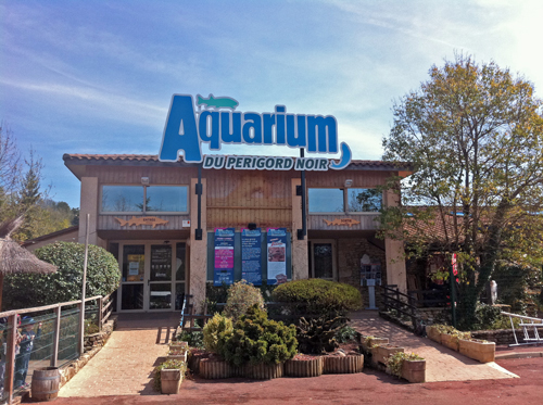 Aquarium Perigord Noir